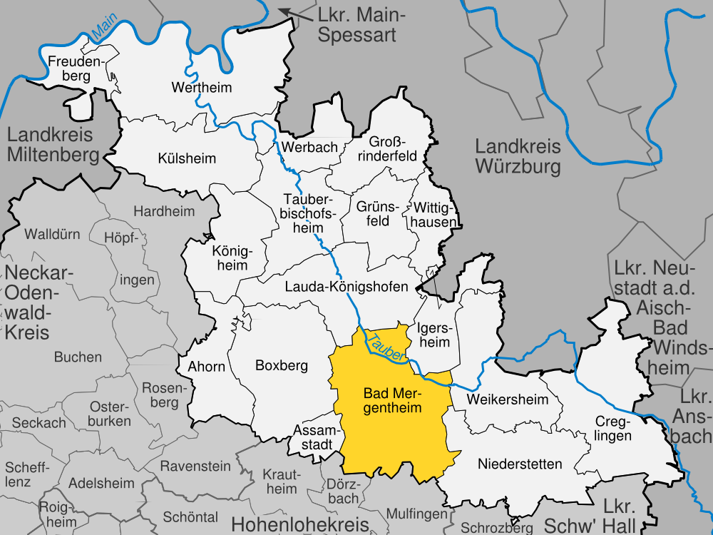 position of Bad Mergentheim within the Main-Tauber-Kreis, Baden-Württemberg, Germany